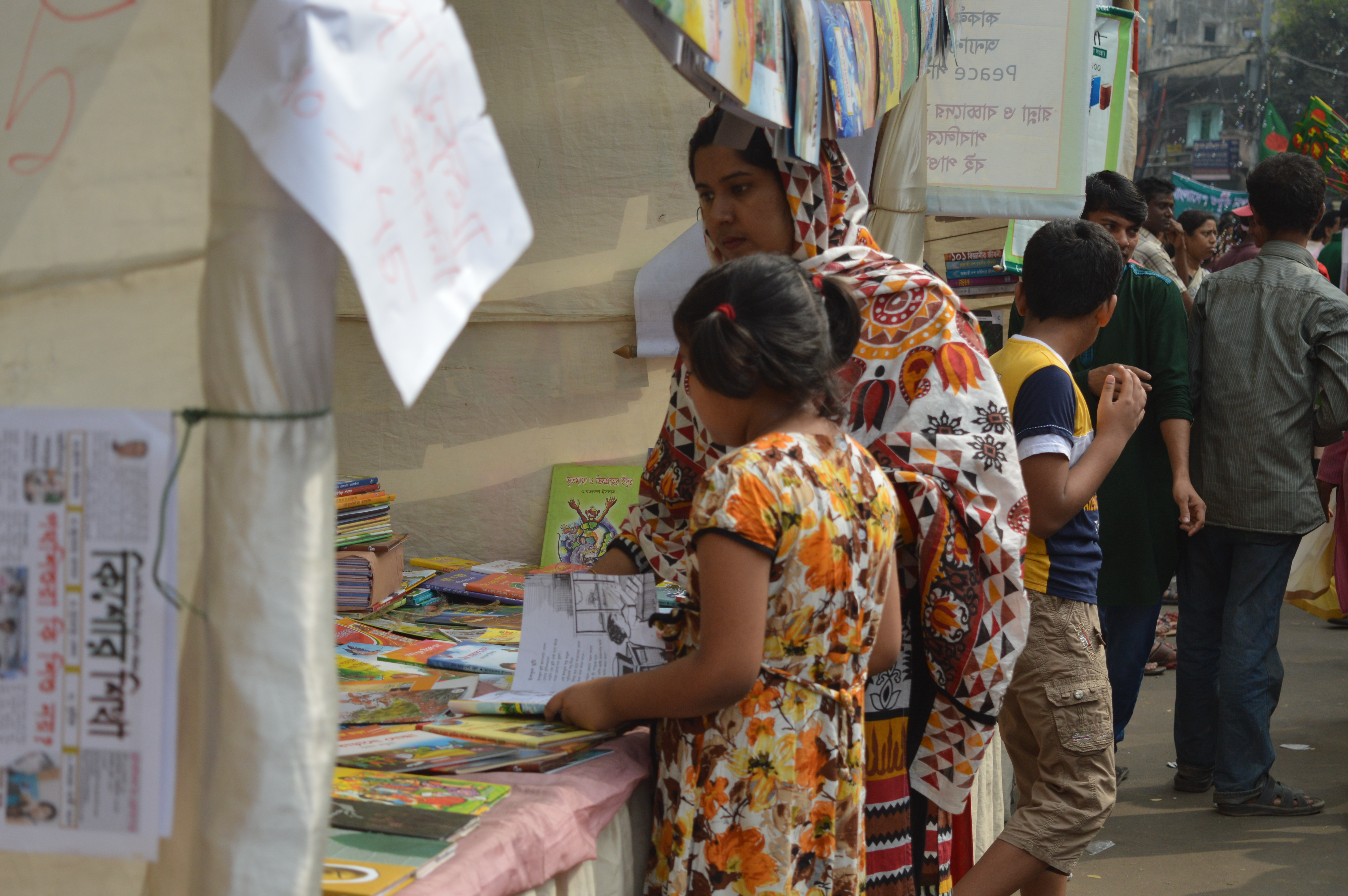 Chittagong City Corporation Book Fair 2016